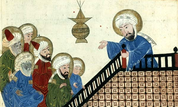 Muhammad prohibiting intercalation; 17th century Ottoman copy of an early 14th century (Ilkhanate period) manuscript of Northwestern Iran or northern Iraq (the "Edinburgh codex"). Illustration of Abū Rayhān al-Bīrūnī's al-Âthâr al-bâqiyah ( الآثار الباقية ; "The Remaining Signs of Past Centuries")